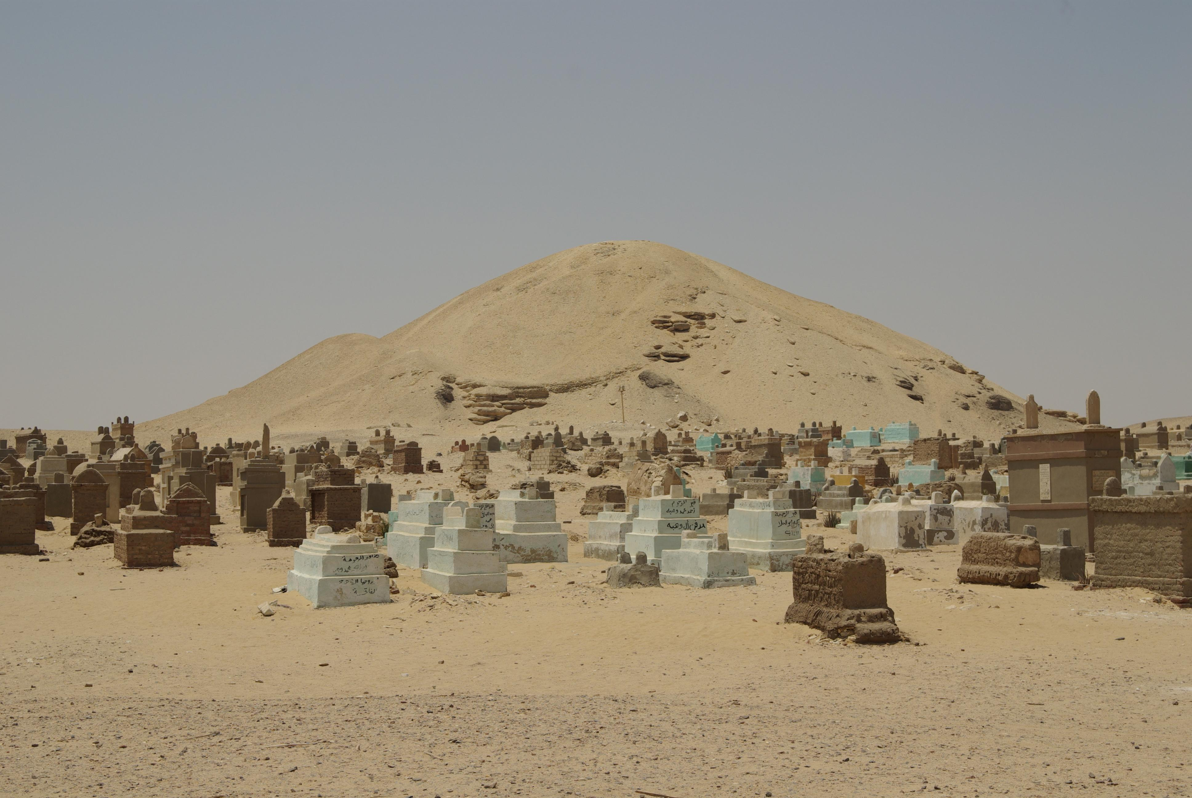 The pyramid of Amenemhat I (circa 1950 BC.) and the current muslim cemetery of El-Lisht. La pirámide de Amenemhat I (aprox 1950 adC.) en El-Lisht y el cementario musulmán (actual) que la flanquea.